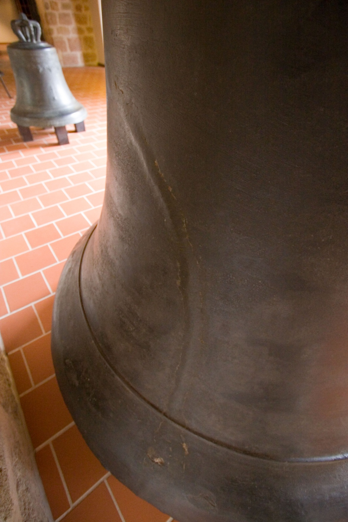 Trace of tinker process (old welding) in 18 century. Musee D' Unterlinden,Colmar,France